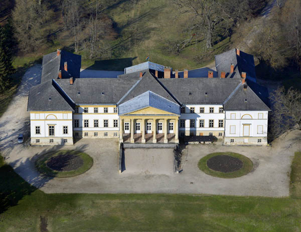 Festetics castle, Dég, Fejér county, Hungary, aerial photography